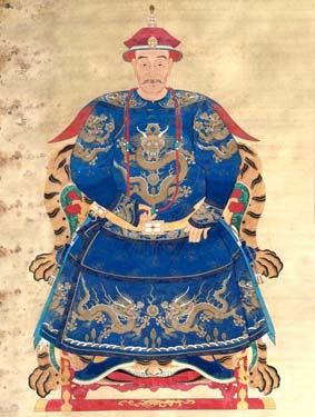 Wu Sangui, a military general during Ming and Qing dynasty